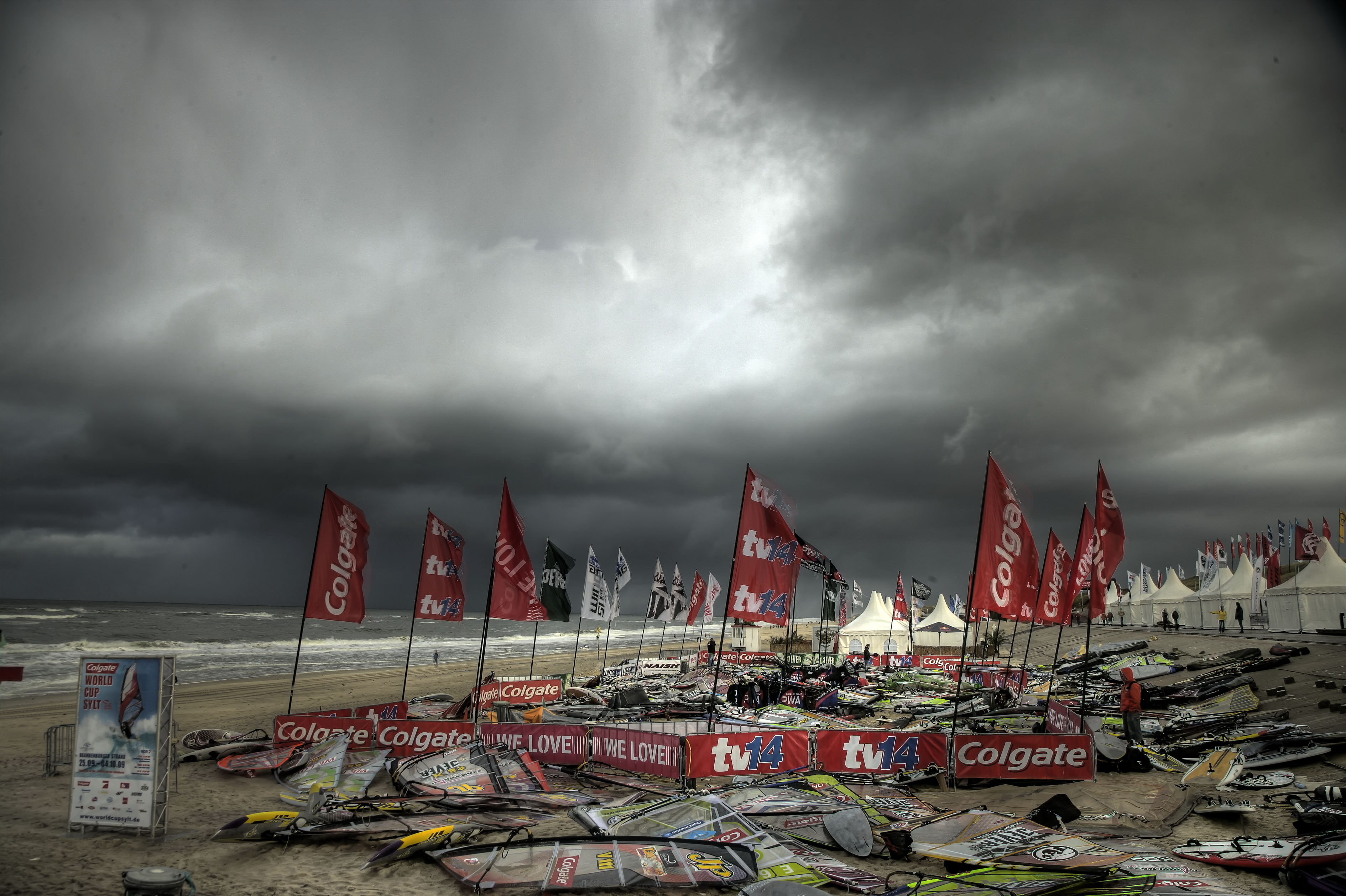 Competition-Area @ Windsurf World Cup Sylt 2009